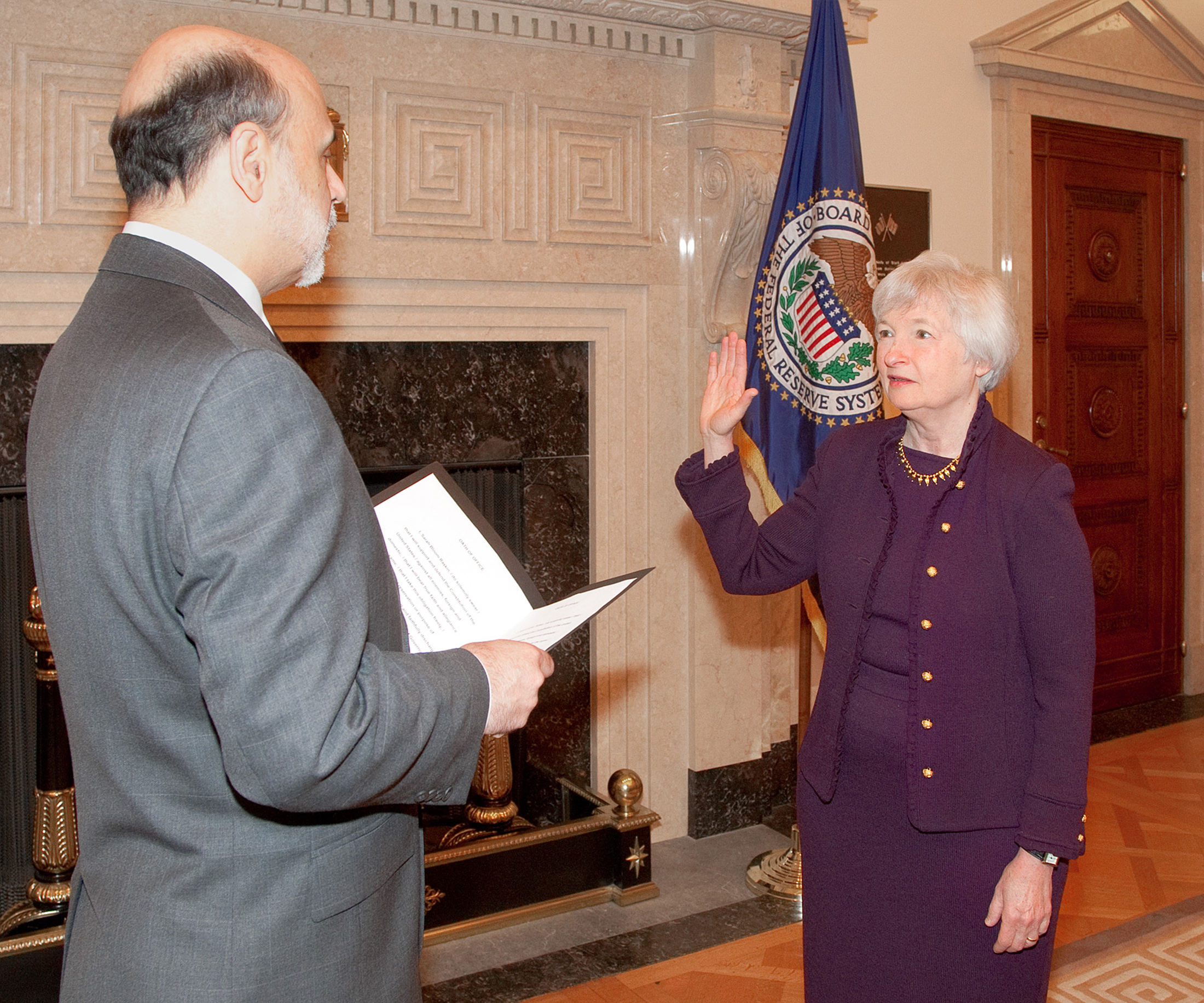 Janet Yellen being sworn in by Fed Chair Ben Bernanke